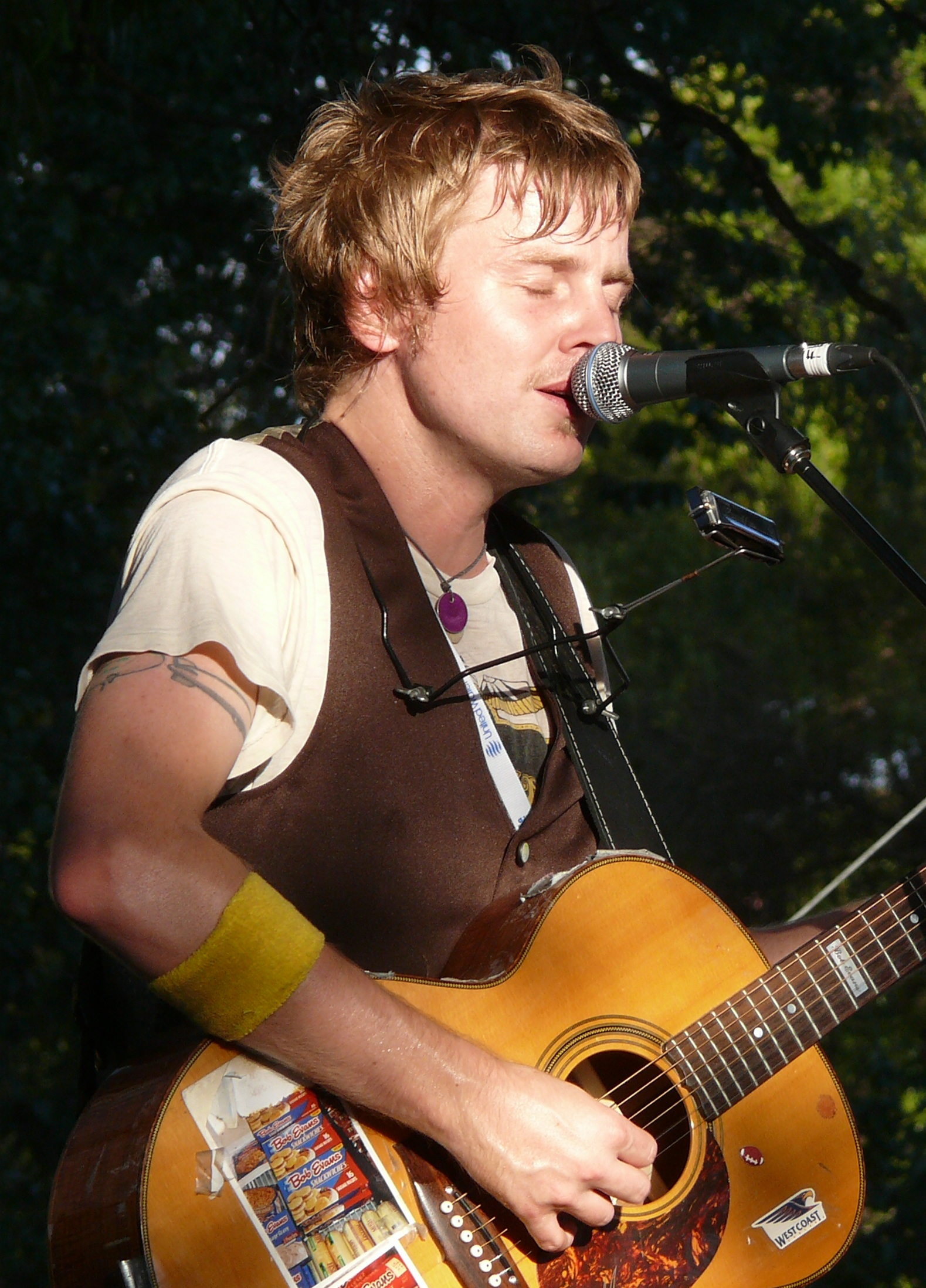 Photo of Kevin Mitchell (as Bob Evans) at WOMADelaide festival in Adelaide, South Australia, March 8th, 2008, taken by Monototo and published under the Creative Commons Attribution-ShareAlike license.